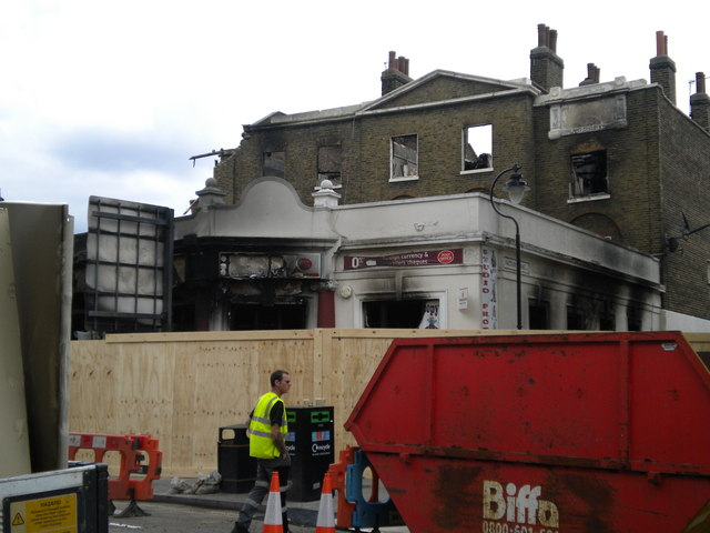 Bruce Grove Post Office, High Road N17, Data from Geograph: Description: At the junction with Factory Lane. Following riot arson ICBM: 51.594128860052, -0.069354477663213 Location: (about 0 km from) near to Tottenham, Haringey, Great Britain.